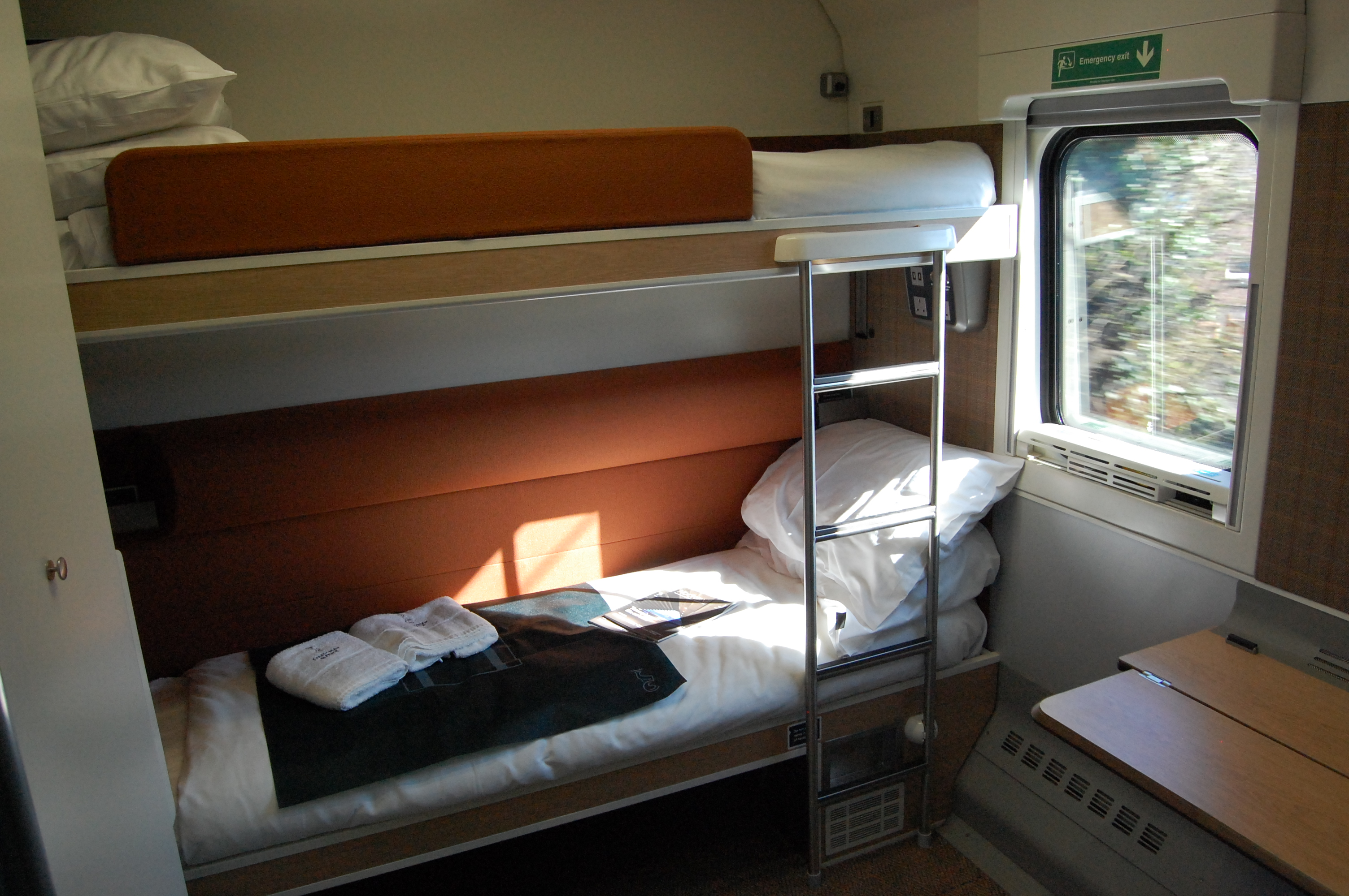 Caledonian Sleeper Mk5 accessible room set up for twin occupancy.